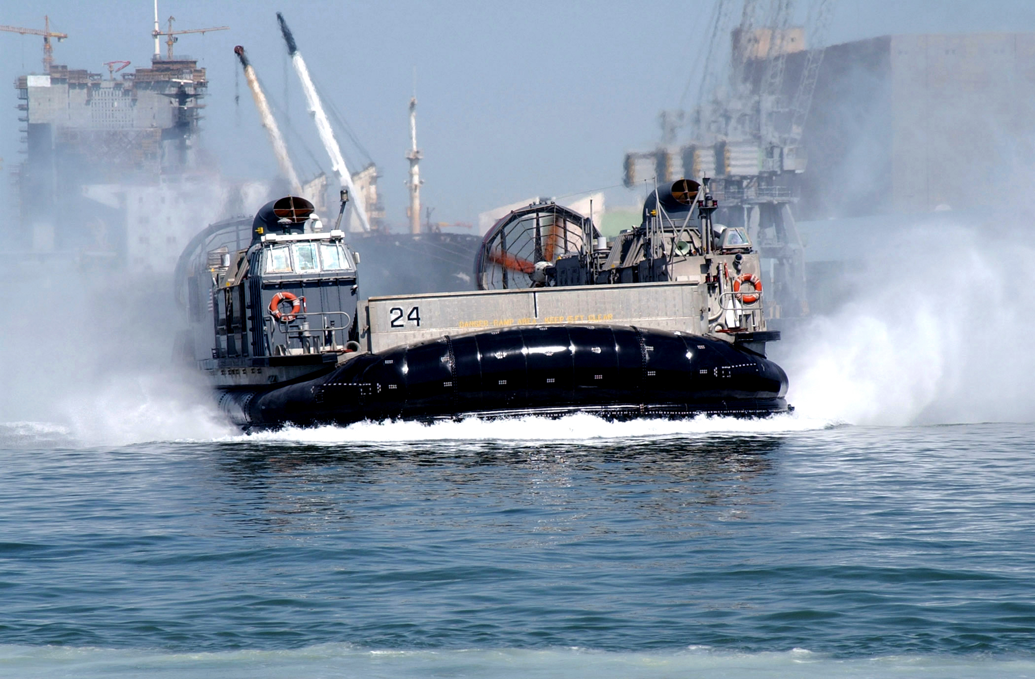 020924-N-5471P-002 At sea with USS Mount Vernon (LSD 39) Sep. 24, 2002 -- A Landing Craft Air Cushion (LCAC) carries U.S. Marines assigned to the 11th Marine Expeditionary Unit (11th MEU) embarked aboard USS Mount Vernon to the beach during exercise “Eager Mace.” Exercise Eager Mace is an annual month-long exercise conducted with the Kuwaiti military to improve interoperability and military relations between the two nations. Mount Vernon and the 11th MEU are on a regularly scheduled deployment conducting combat missions in support of Operation Enduring Freedom U.S. Navy photo by Photographer’s Mate 2nd Class Aaron Peterson. (RELEASED)